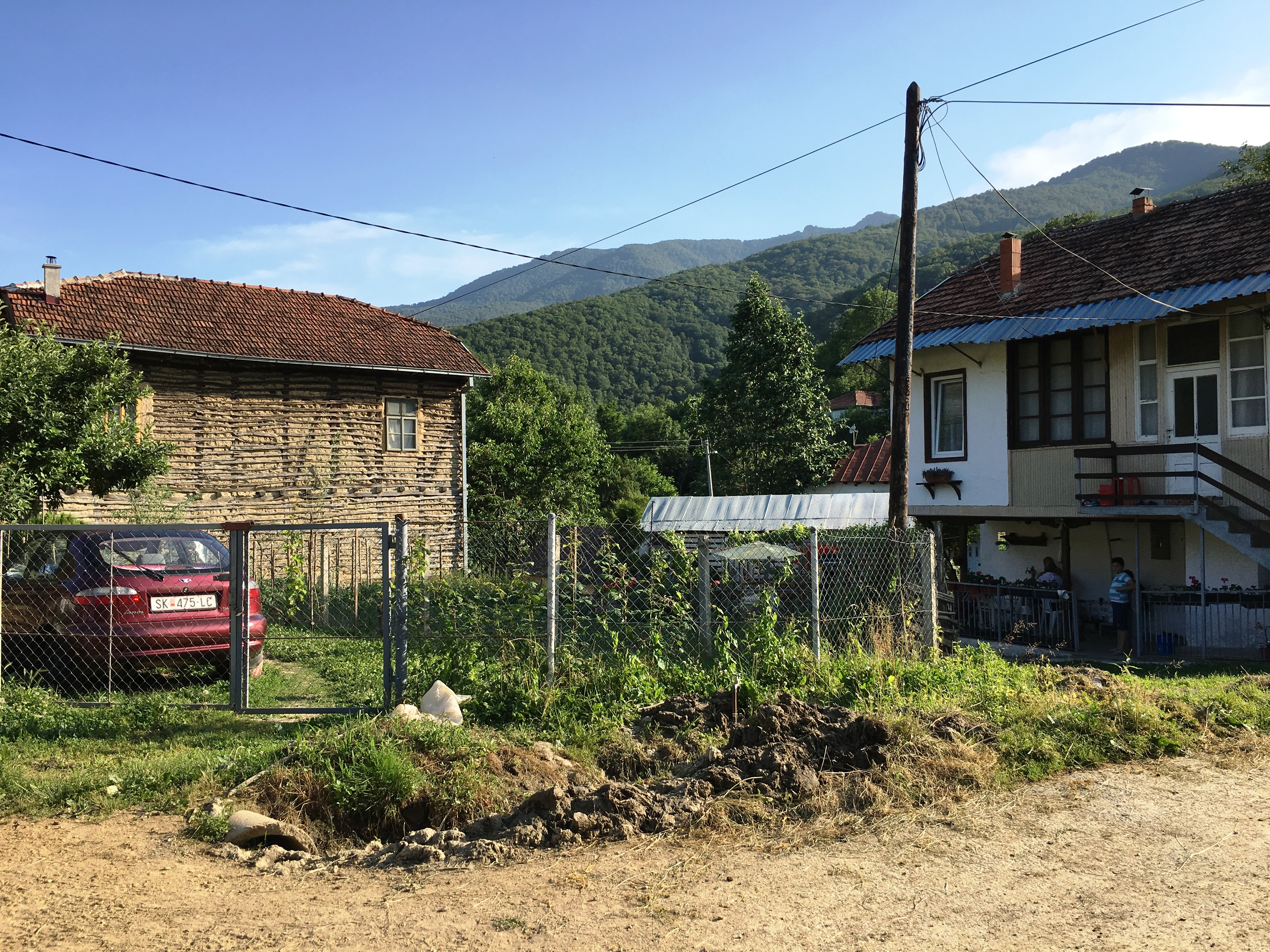 Houses in the village of Grešnica